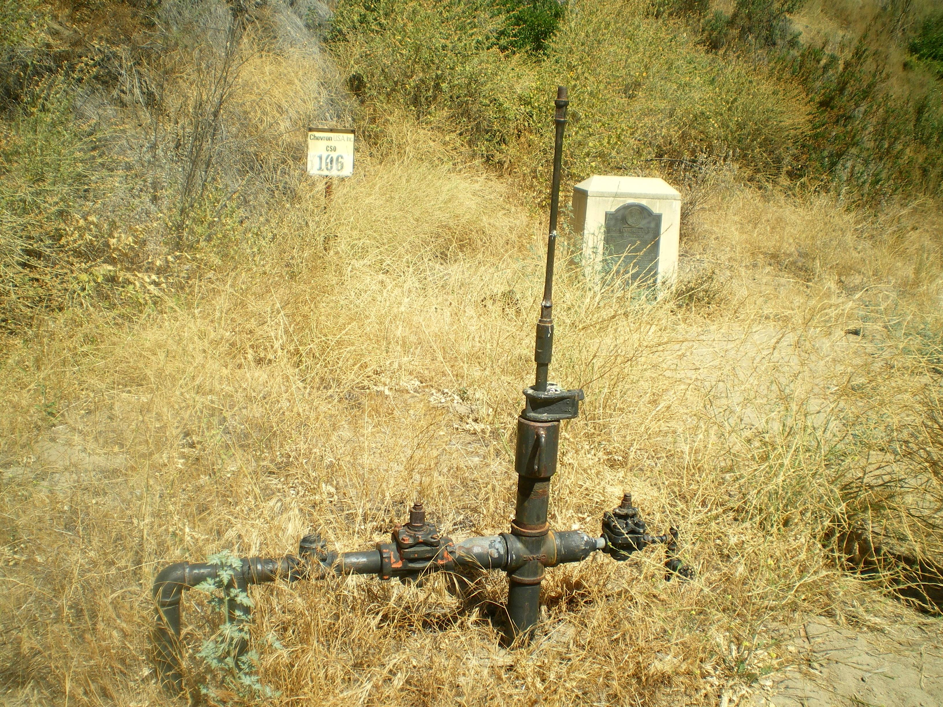 Photograph of Well No. 4 at the Pico Canyon Oil Field, in Pico Canyon, southeast of Newhall, California